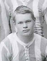 Finnish international footballer Eino Soinio. Cropped from File:HJK_champions_1911.png